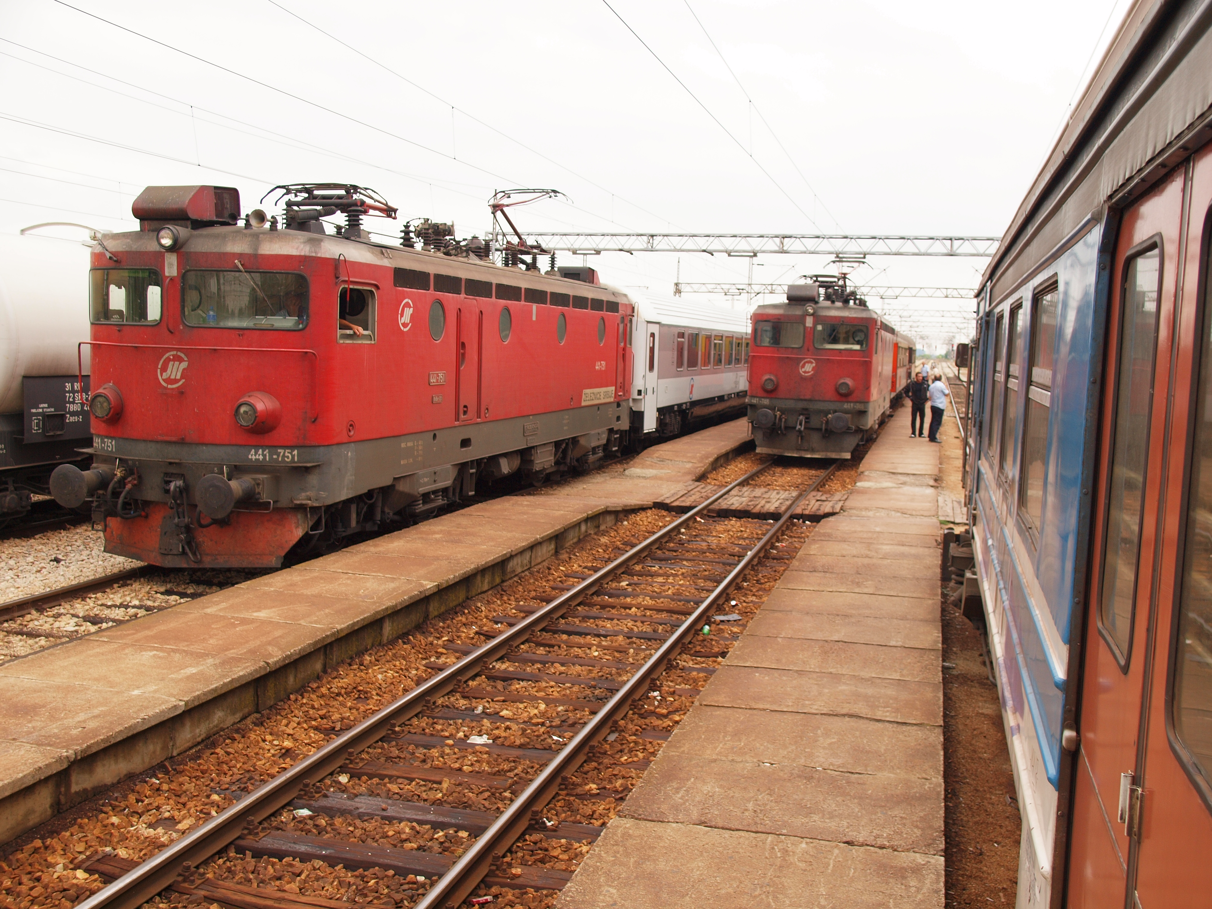 ЖС 441 at Indija junction